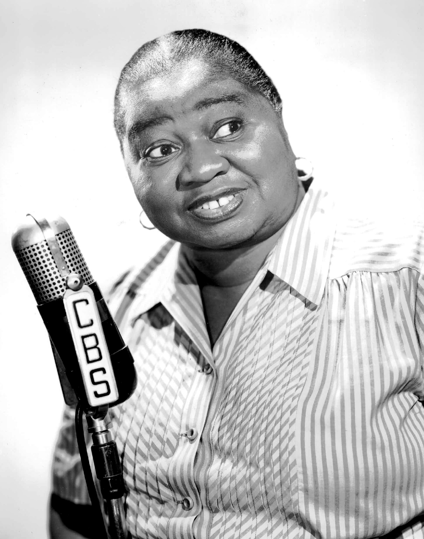 Photo of Hattie McDaniel as Beulah from the radio program of the same name. The original role was voiced by actor Marlin Hurt. Shortly after his sudden death in 1946, the role went to African-American actresses, beginning with Hattie McDaniel.